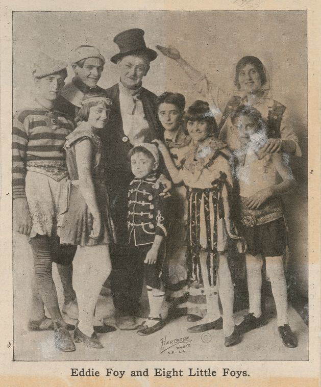 Publicity photograph of Eddie Foy and the Seven Little Foys for the Keystone Company as published in Moving Picture World, October 23, 1915